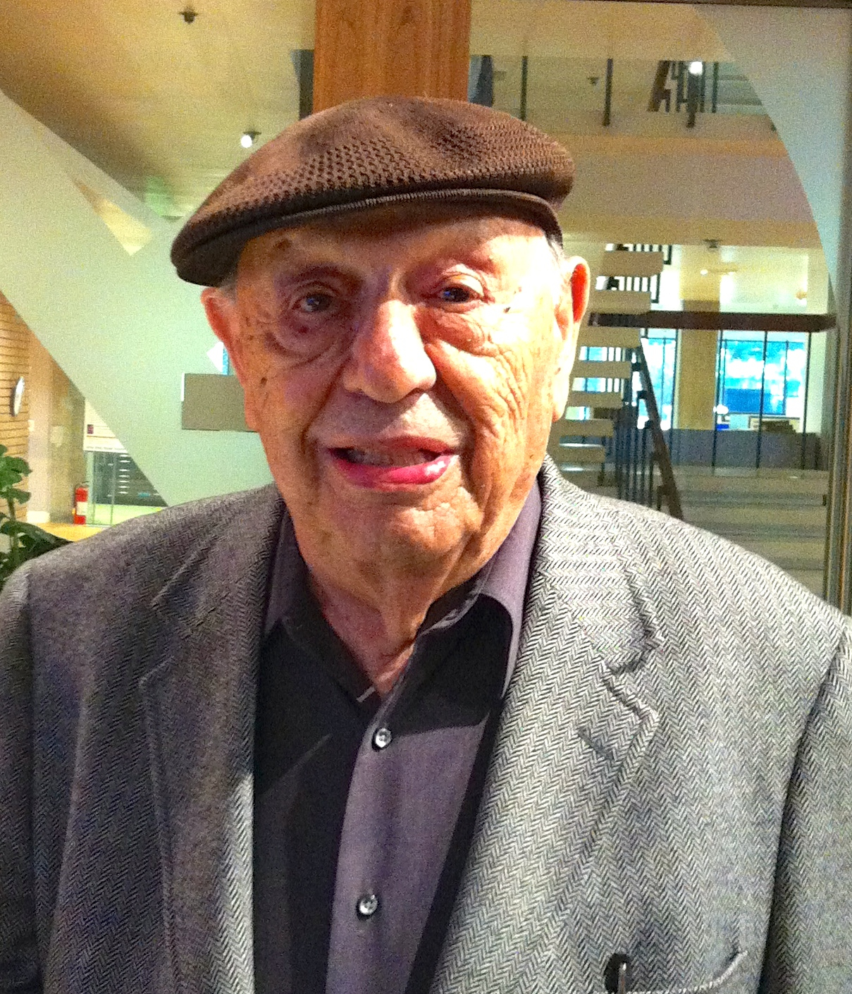 Mel Weisburd, photo taken at a UCLA Library Special Collections exhibit on post WWII poetry in Los Angeles